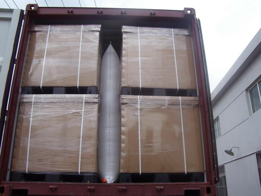 pnevmoobolochka in track